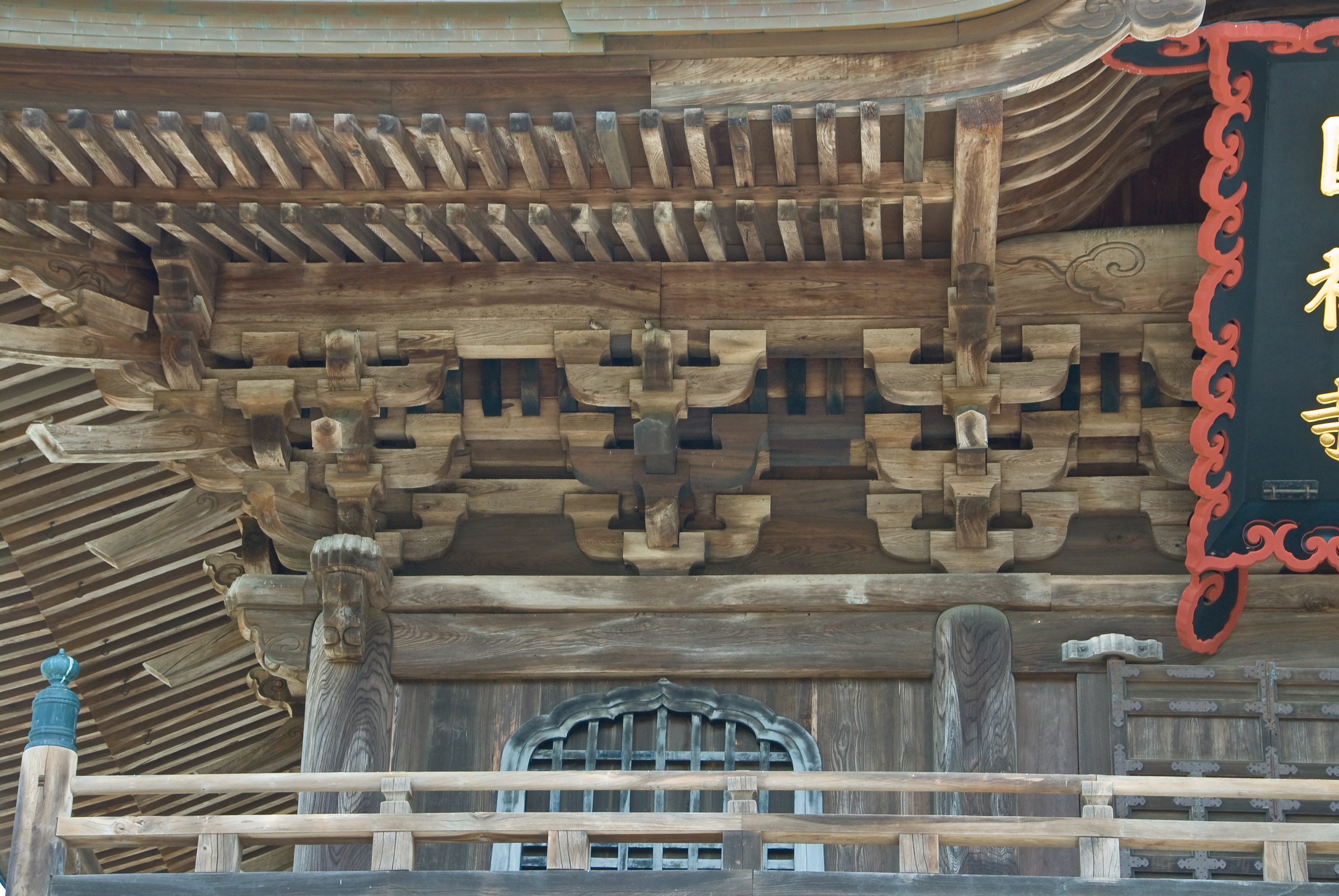 Futatesaki under the roof of Kencho-ji's sanmon in Kamakura, Japan